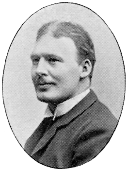 Image scanned from the book "Svenskt Porträttgalleri XX - Arkitekter, Bildhuggare, Målare m.fl. " ("Swedish Portrait Gallery XX - Architects, Sculptors, Painters, ") published 1901